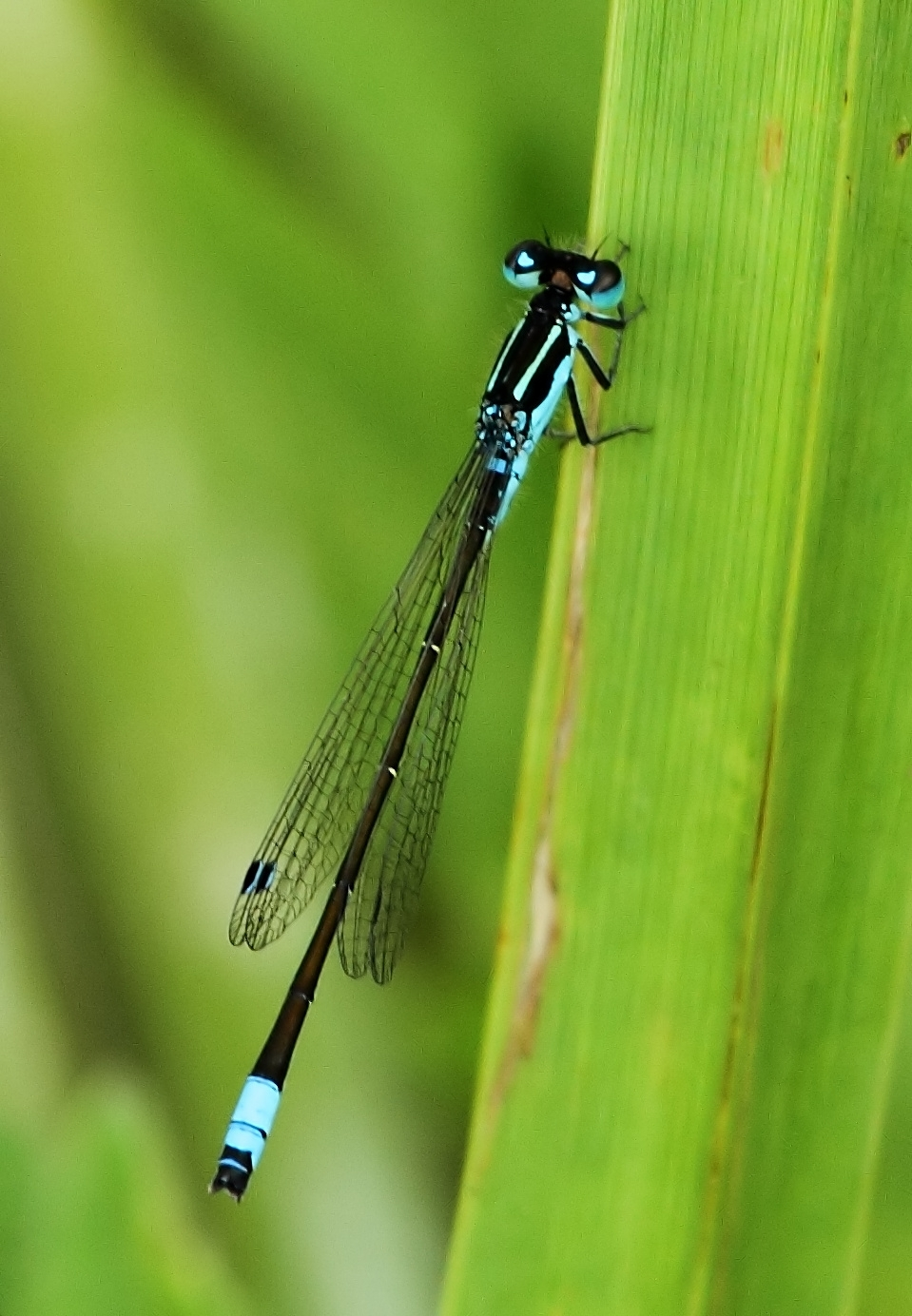 Male Round-Winged Bluet (Proischnura rotundipennis) at Cedara, KwaZulu-Natal, South Africa.